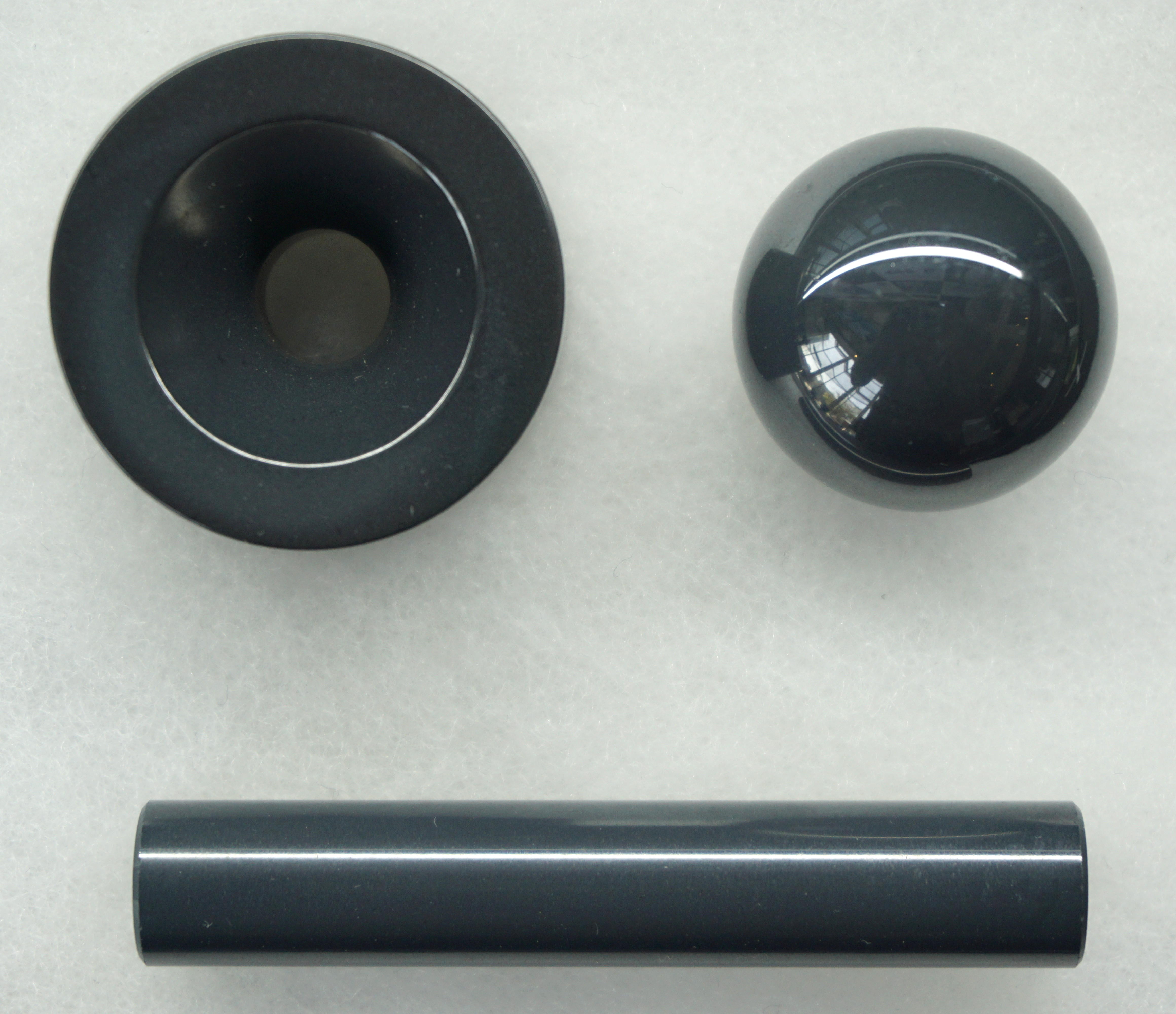 α-SiAlON ceramic parts